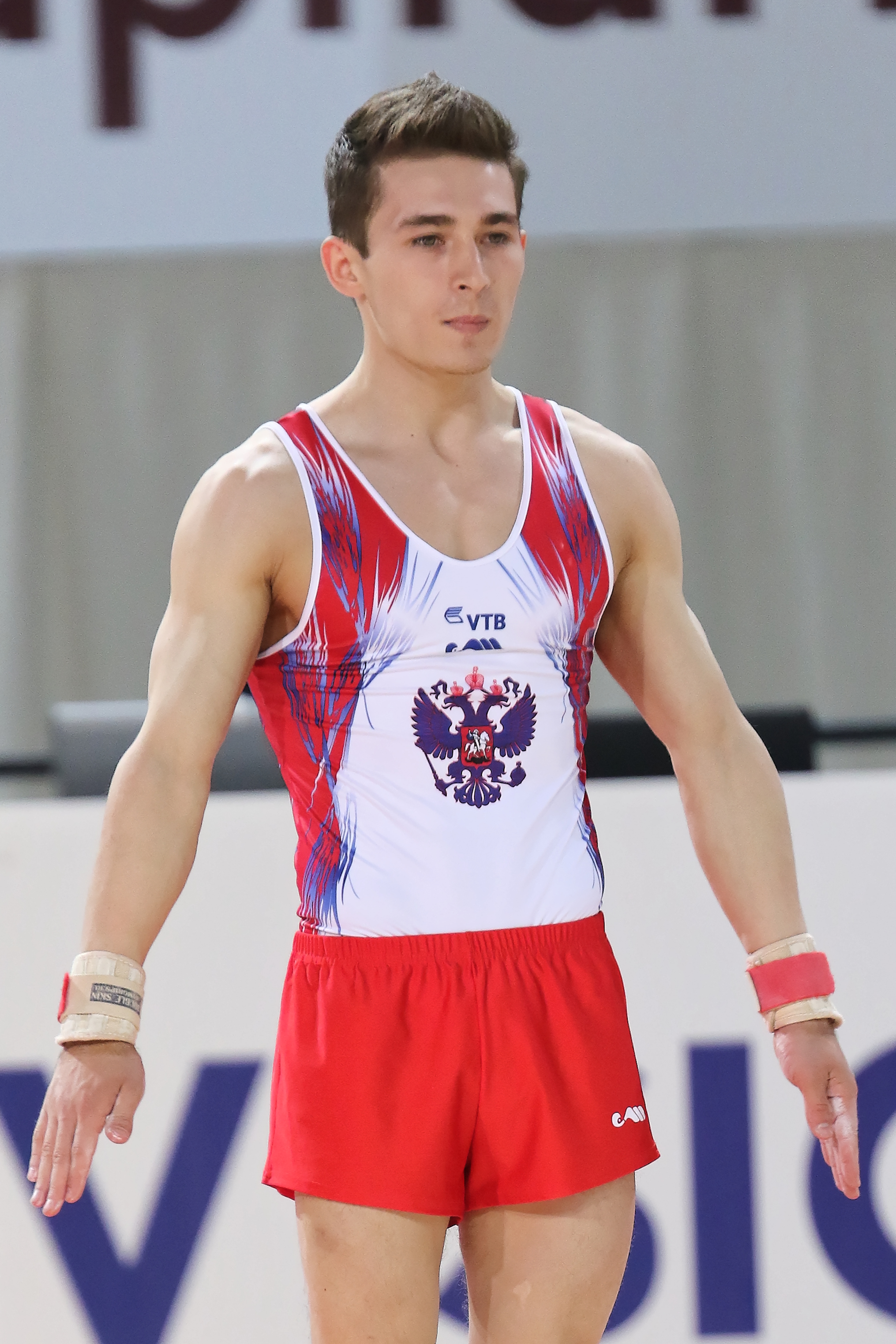 2015 European Artistic Gymnastics Championships. Floor.